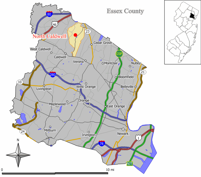 Source: Jim Irwin Original work by Jim Irwin, December 2005.